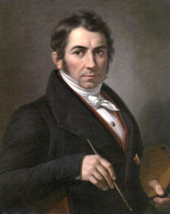 Self-portrait in Uffizi Gallery